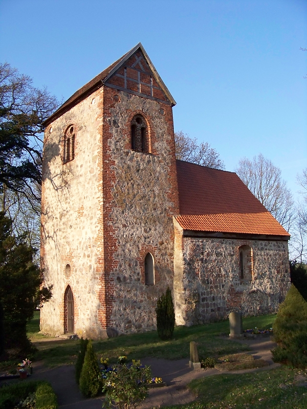 Church in Grüssow, district Mecklenburgische Seenplatte, Mecklenburg-Vorpommern, Germany